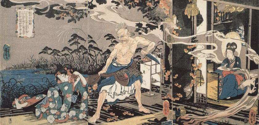 Kanzenon reigen hitotsuya no kyūji (観世音霊験一ツ家の旧事), the tale of Onibaba